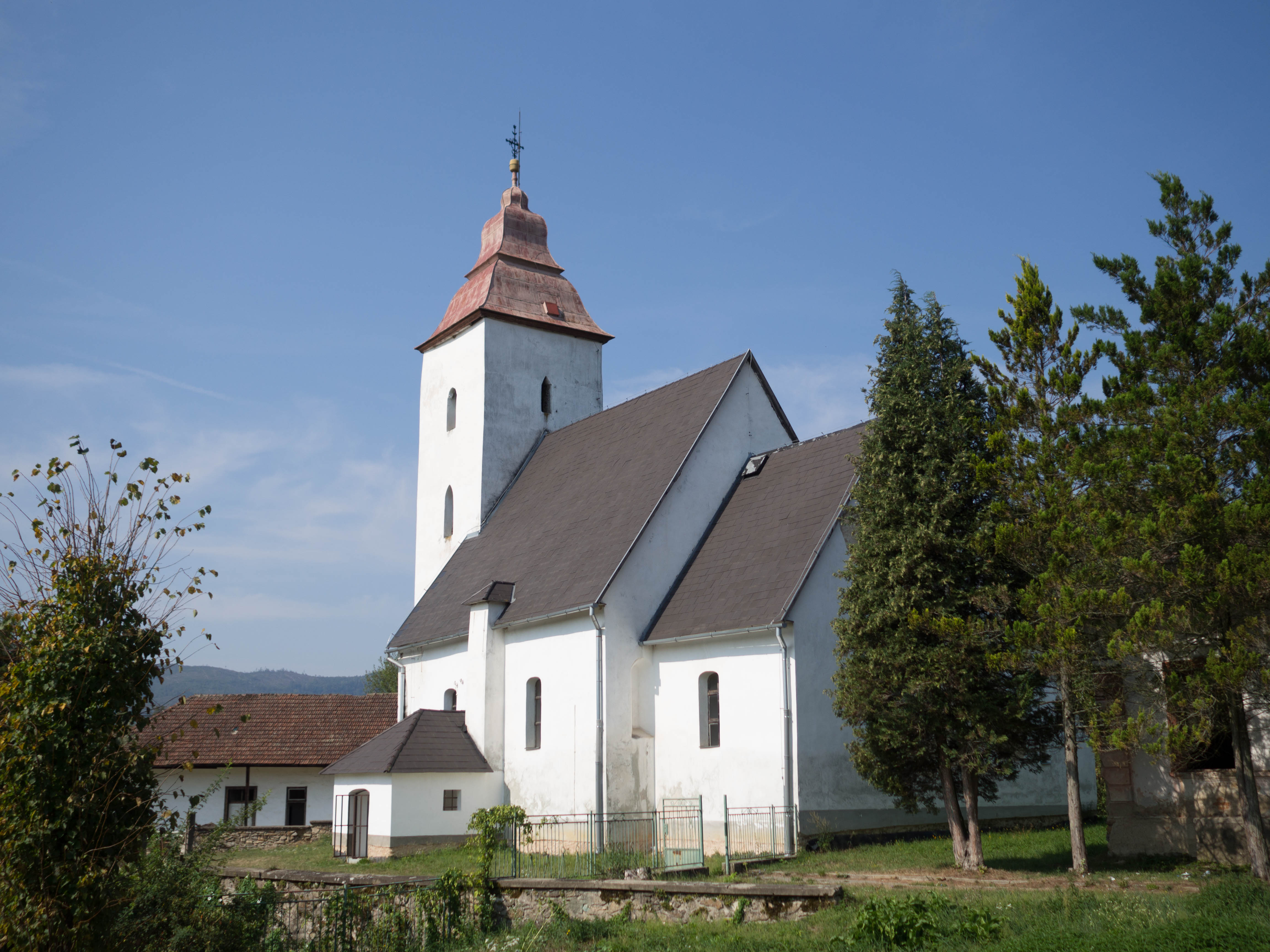 The Lutheran Church in Roštár, Slovakia.